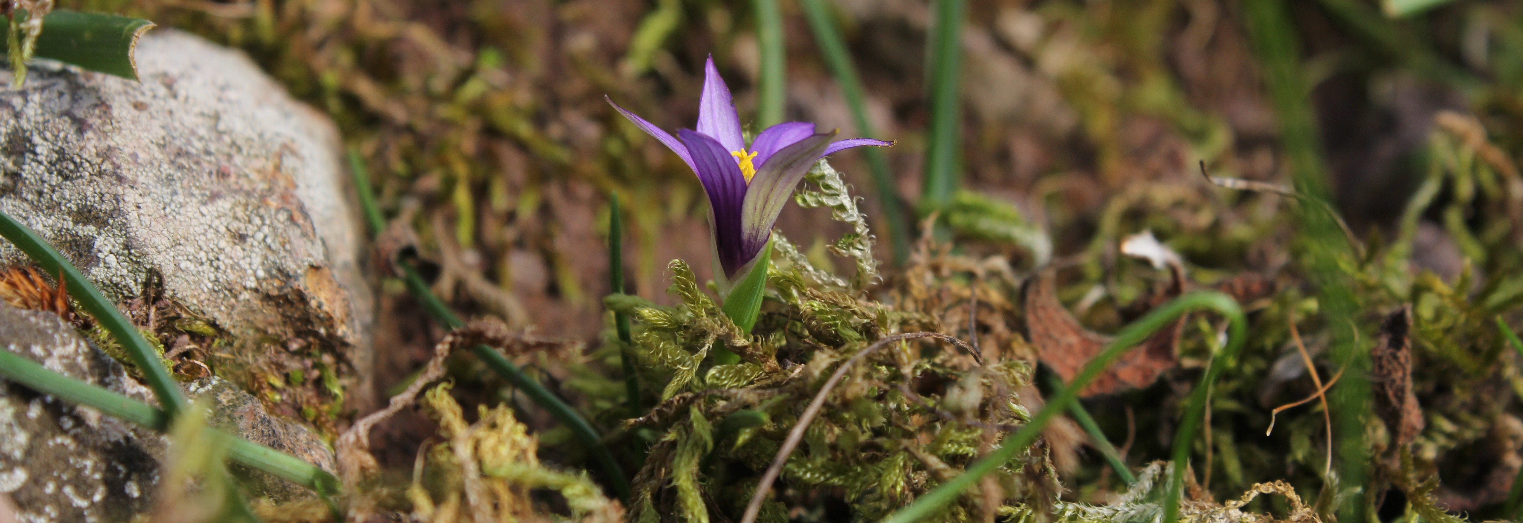 Romulea linaresii subsp. graeca general